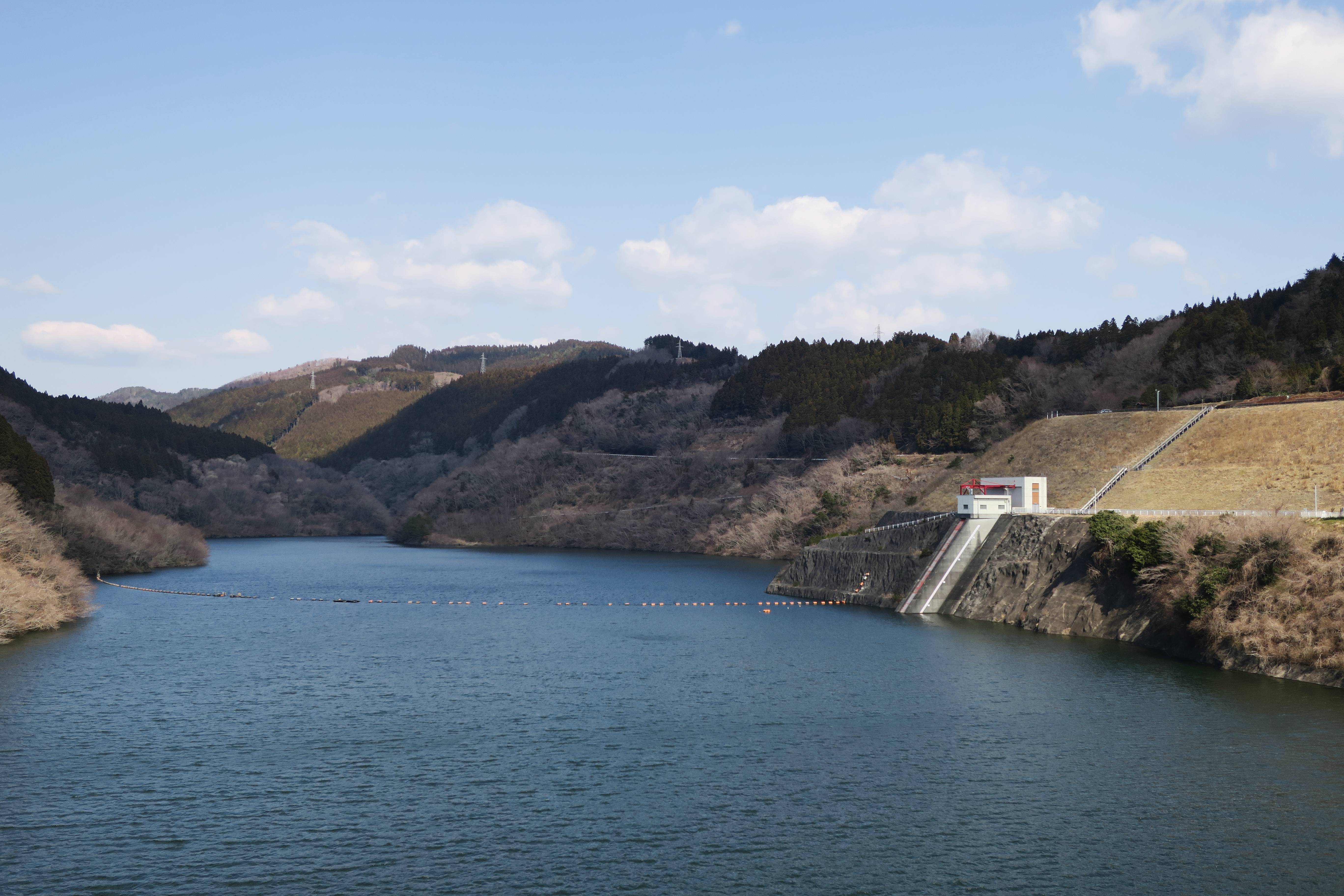 Shitoki Dam.